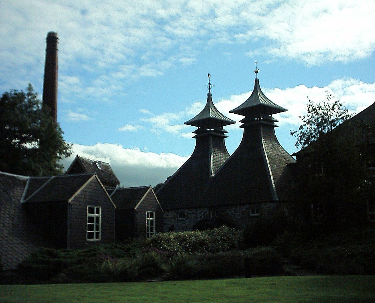 Strathisla distillery, Keith, Scotland Author: Wojsyl